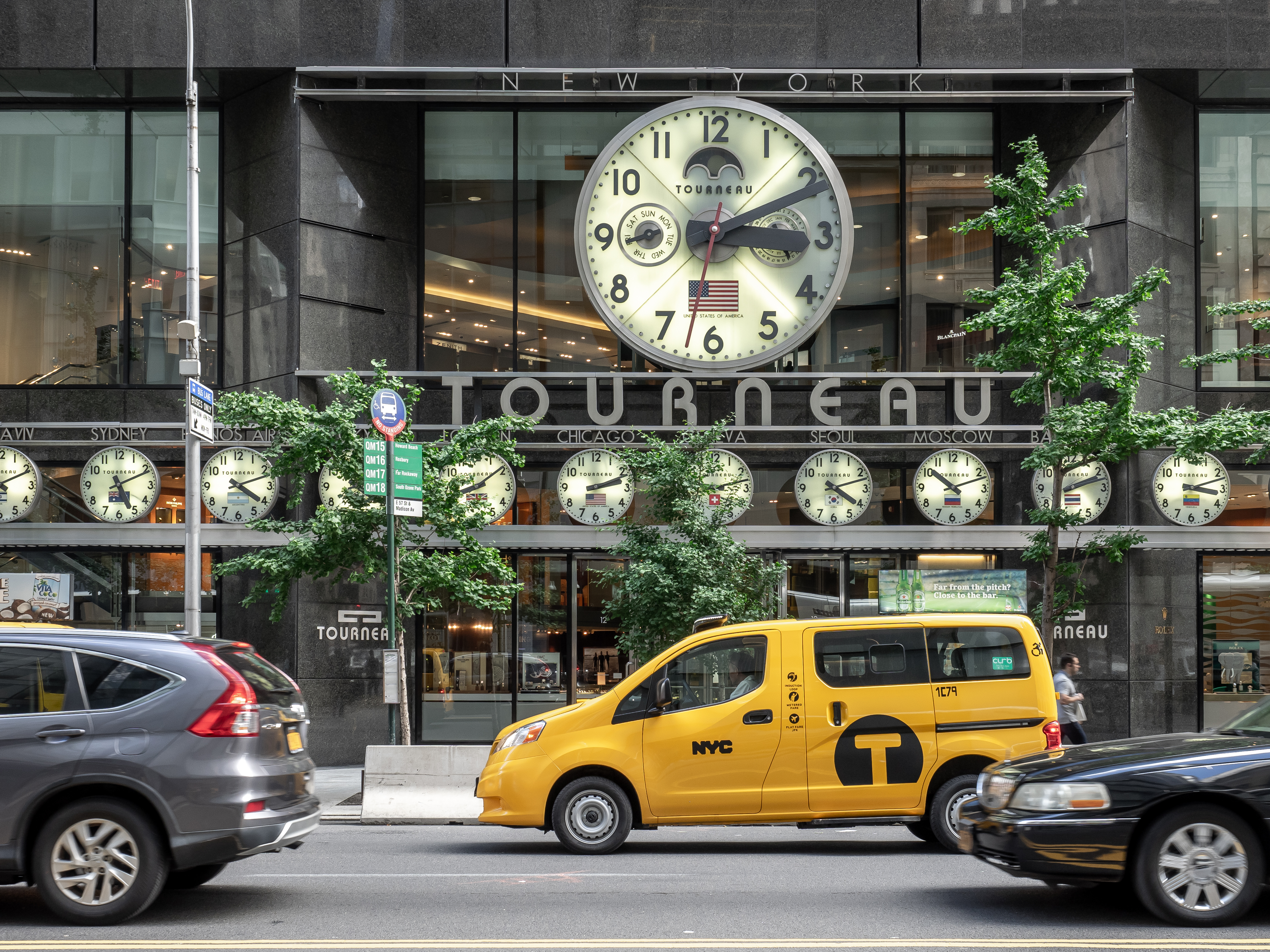 Midtown, NYC